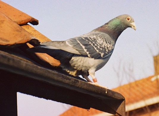 The homing pigeon is a variety of domesticated Rock Dove (Columba livia) that has been selectively bred to be able to find its way home over extremely long distances. Because any pigeon generally returns to its own nest and its own mate, it was relatively easy to selectively breed the birds that repeatedly found their way home over long distances. The birds can carry messages (frequently written on cigarette paper) in a small tube attached to one leg. Flights as long as 2,718 km have been recorded by exceptional birds in competition pigeon racing. Their average flying speed over moderate distances is around 50 km/h, but they can achieve bursts of speed up to 100 km/h. This kind of pigeon has special features in their anatomy like color of eyes and pupil size, wing's feather configuration,walking style,wings flap speed etc. people will select them carefully in order to get the best bird quality for joining to the bird racing competition. One thing must take in a note, the male pigeon will perform fast flying to his female when mating season come. In this period, people will bring their bird for racing on the field. People will call the male bird from a distance by waving female bird in the hand.